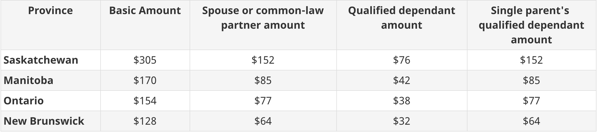 Expected Rebates for A Single Canadian in Eligible Jurisdictions, not including additional provisions for rural Canadians.